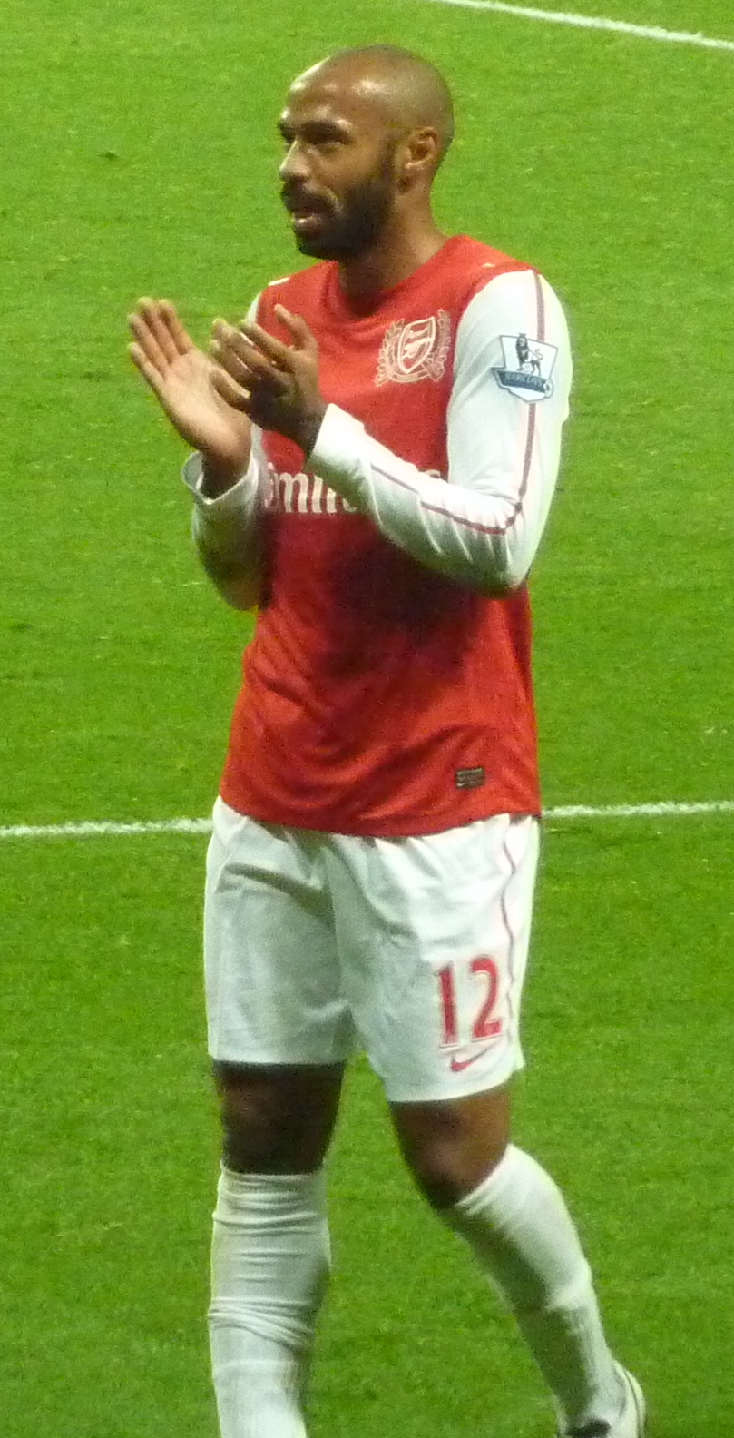 Thierry Henry applauding Arsenal fans after his return on loan.